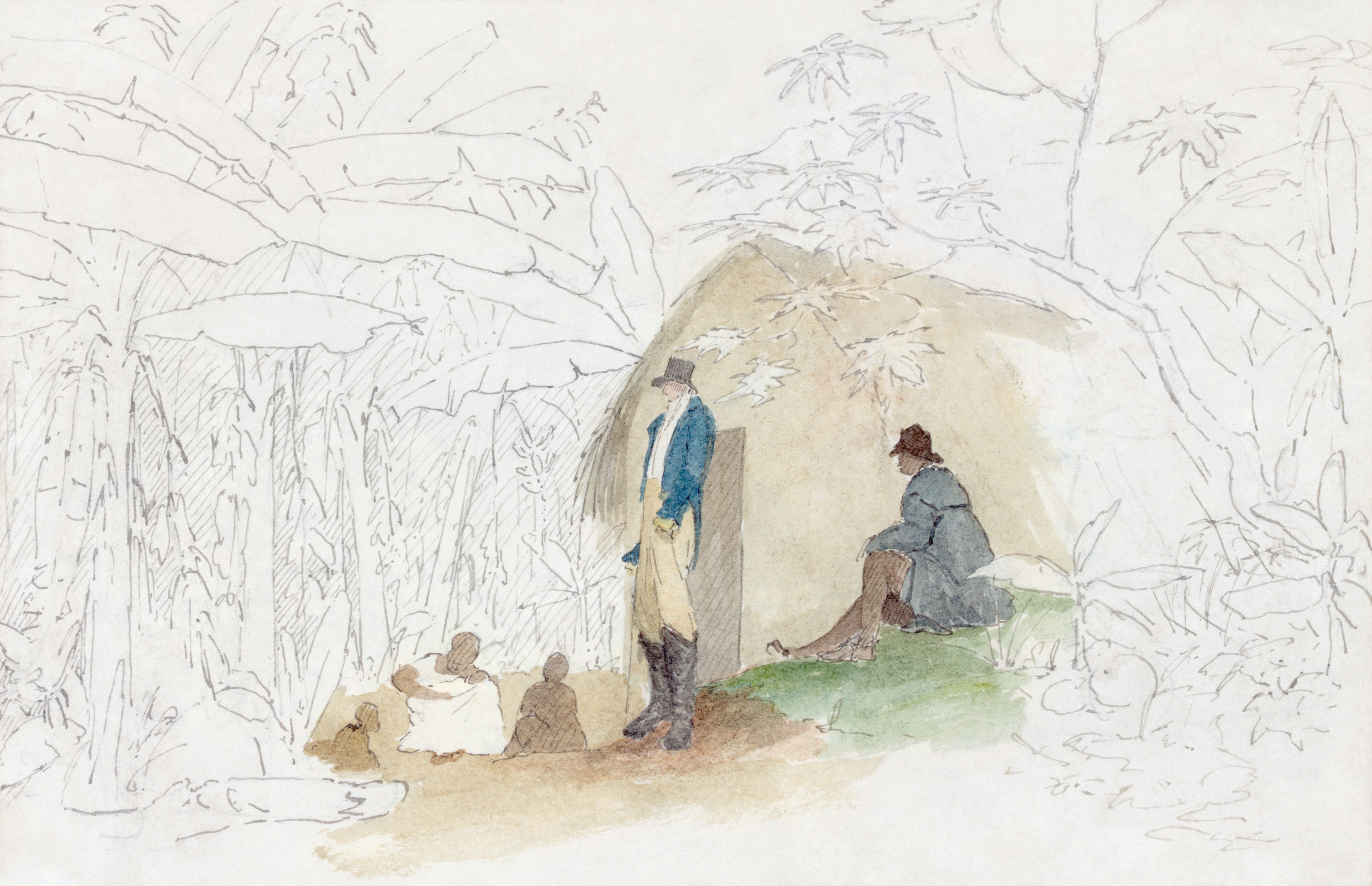 "Negro hut with figures in plantain walk", pencil, ink, and watercolor.